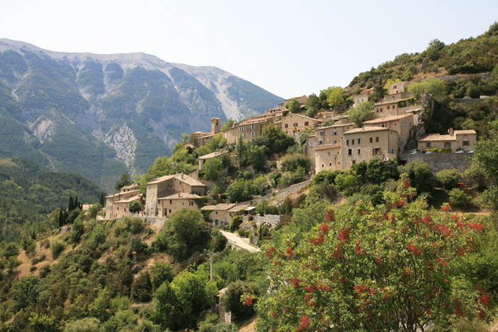 the town of Brantes in Vaucluse, France